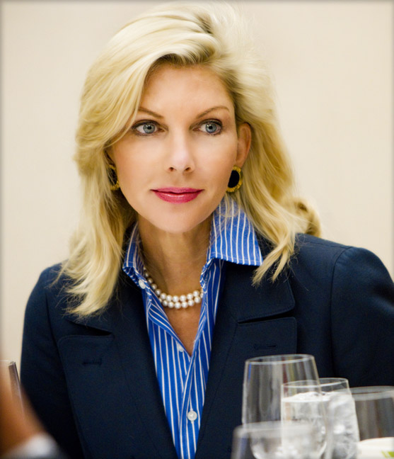 Mary Kaye Huntsman at one of her husband's a speaking events in 2011.